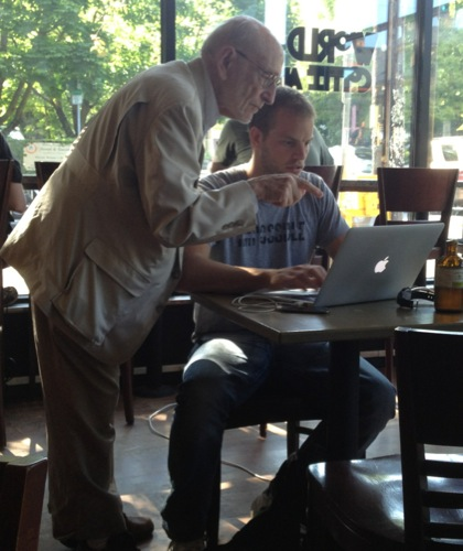 Russell Kirsch standing over and pointing to a laptop computer being used by Joel Runyon seated at a table.